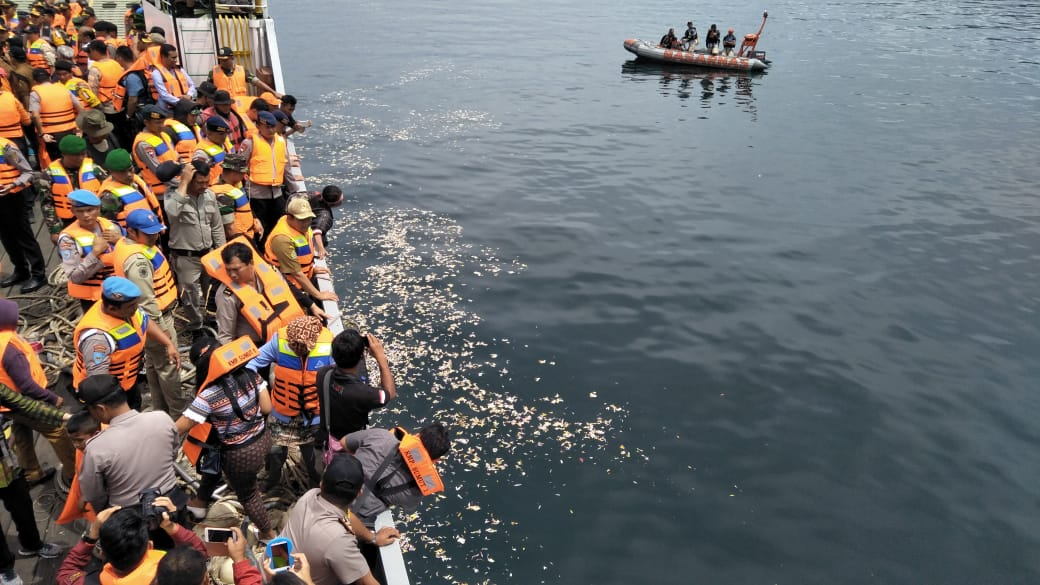 Memorial service in Lake Toba